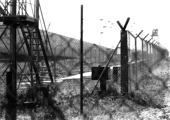 fences and watch towers around Fort Redleg near Heilbronn, Germany in the 1980ies